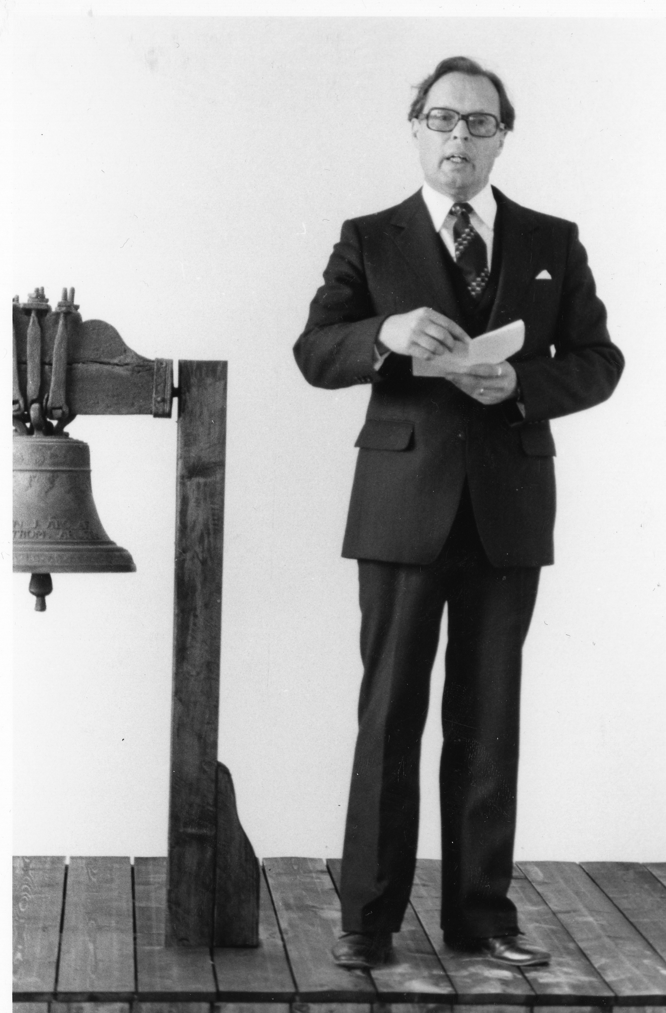 Photograph of the Finnish historian Carl Jacob Gardberg (1926–2010) speaking at the Finnish Maritime Museum, Helsinki.